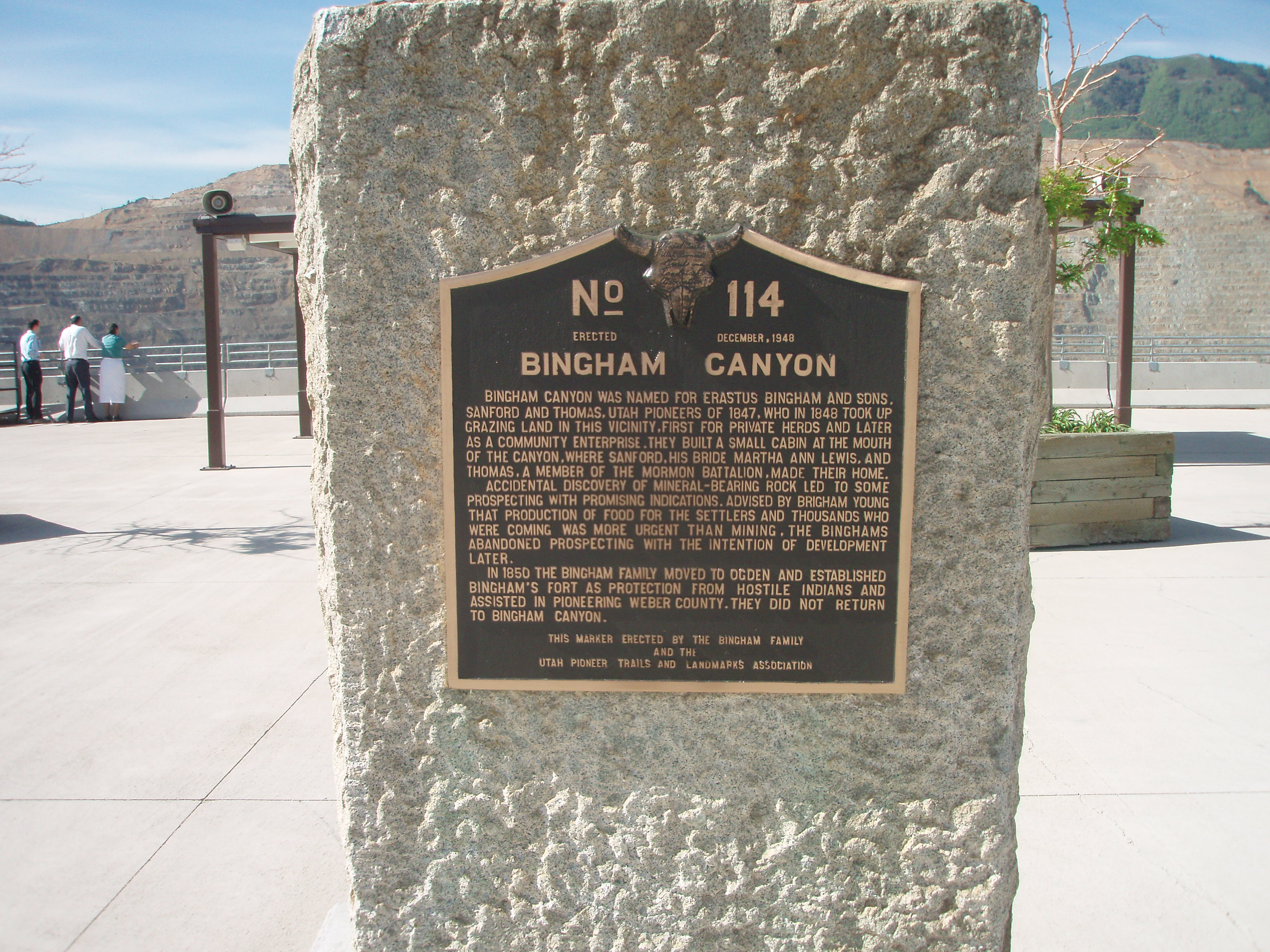 Bingham Canyon Mine Visitors Center